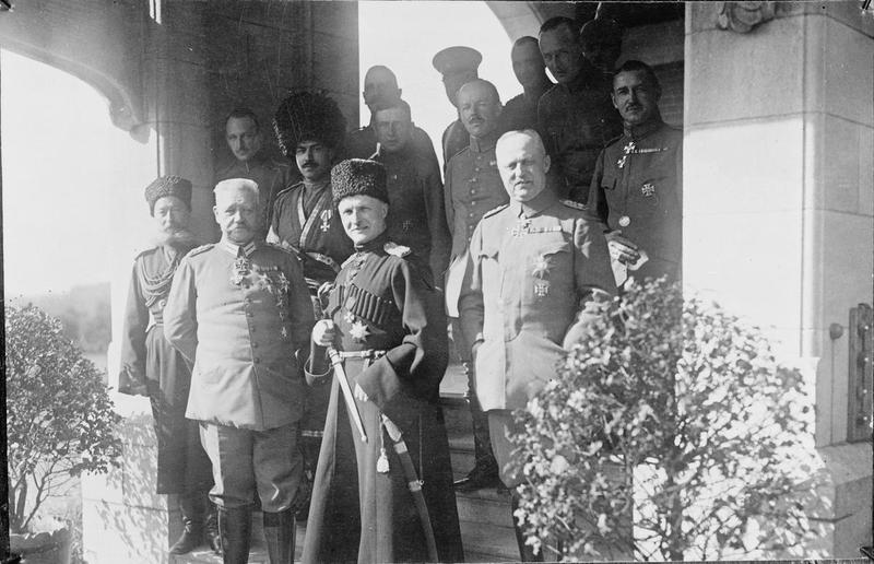 Geiser Theodore (mons) Collection The Hetman of the Ukraine, General Skoropadsky, as a guest at German General Headquarters at Spa with Field-Marshal von Hindenburg and General Ludendorff, 9th September 1918.